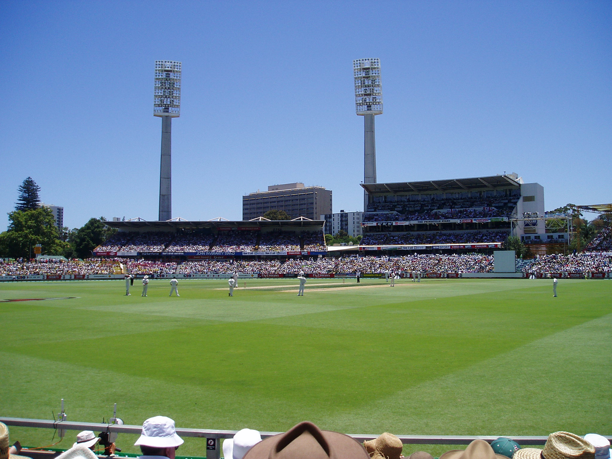 The WACA. Taken in December 2006